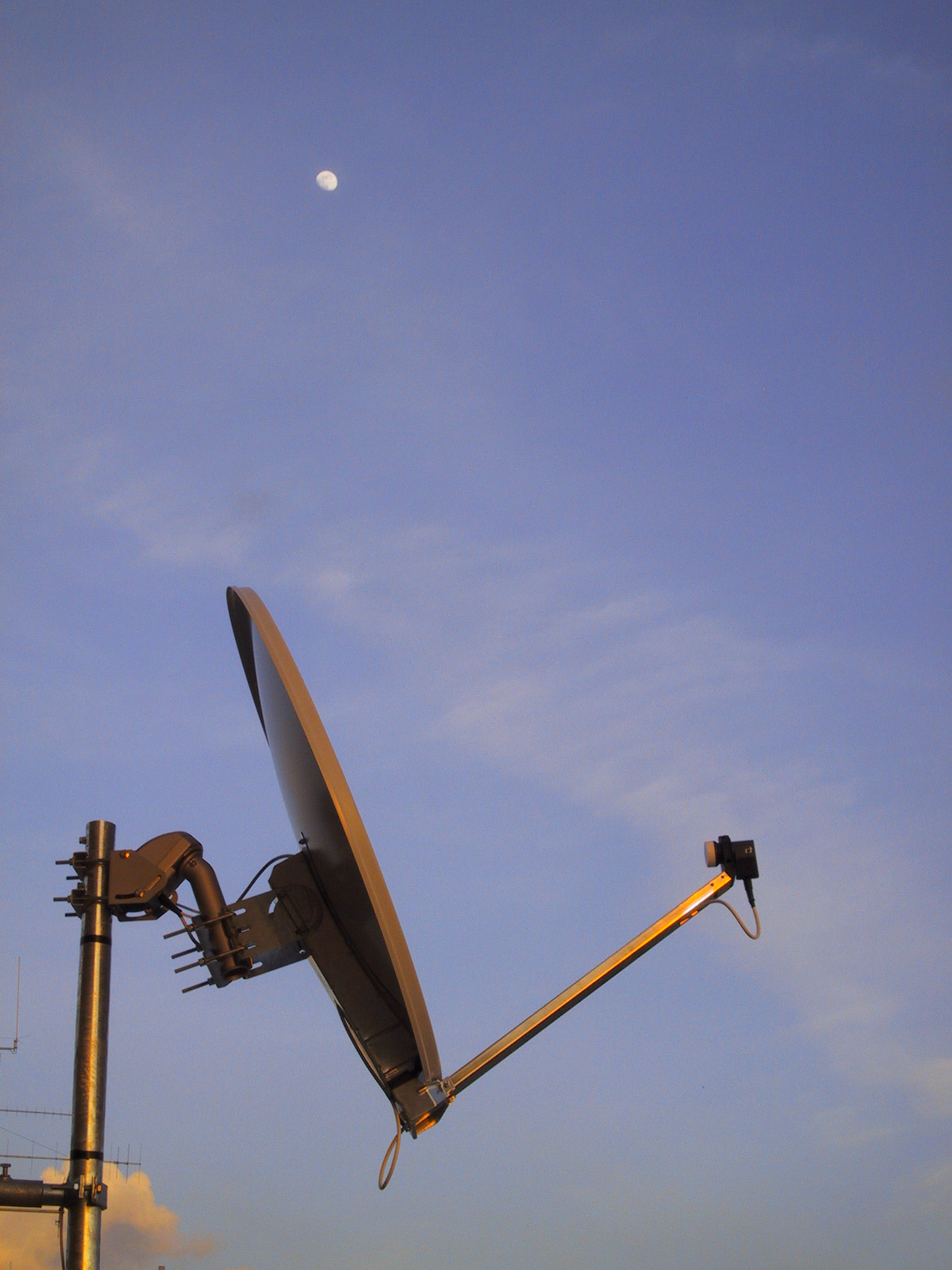 Dish with motor